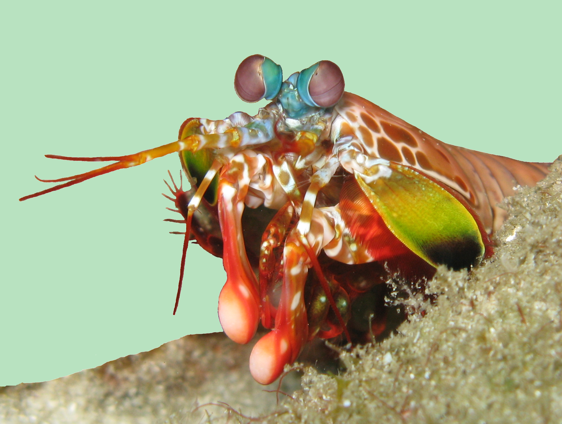 Closeup of a stomatopod crustacean (mantis shrimp) Odontodactylus scyllarus taken in the Andaman Sea off Thailand in February, 2008.